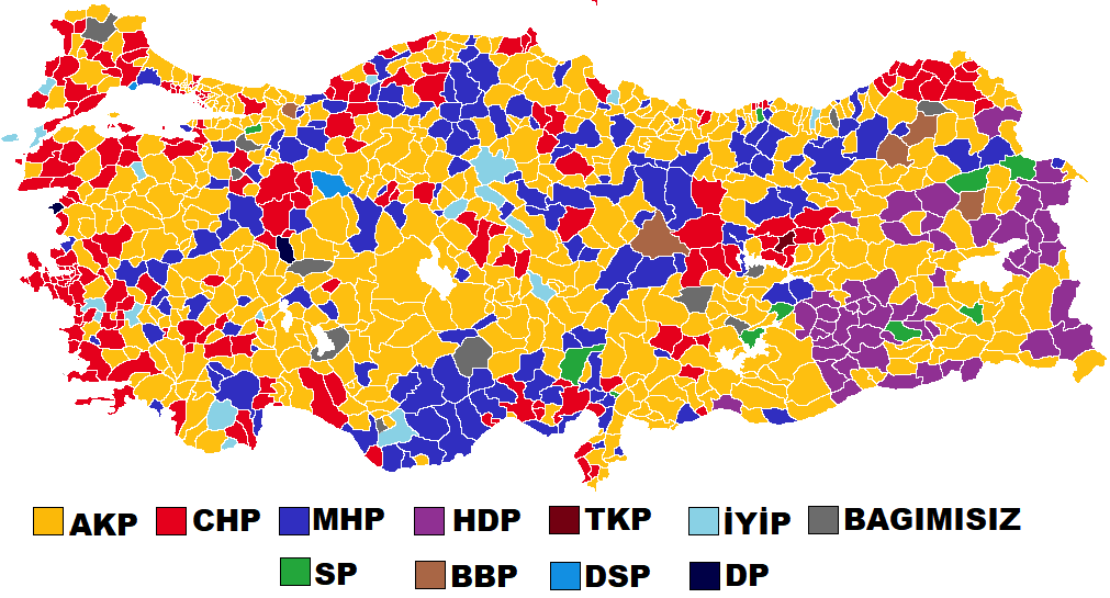 2019 Turkish Local Election Map by district